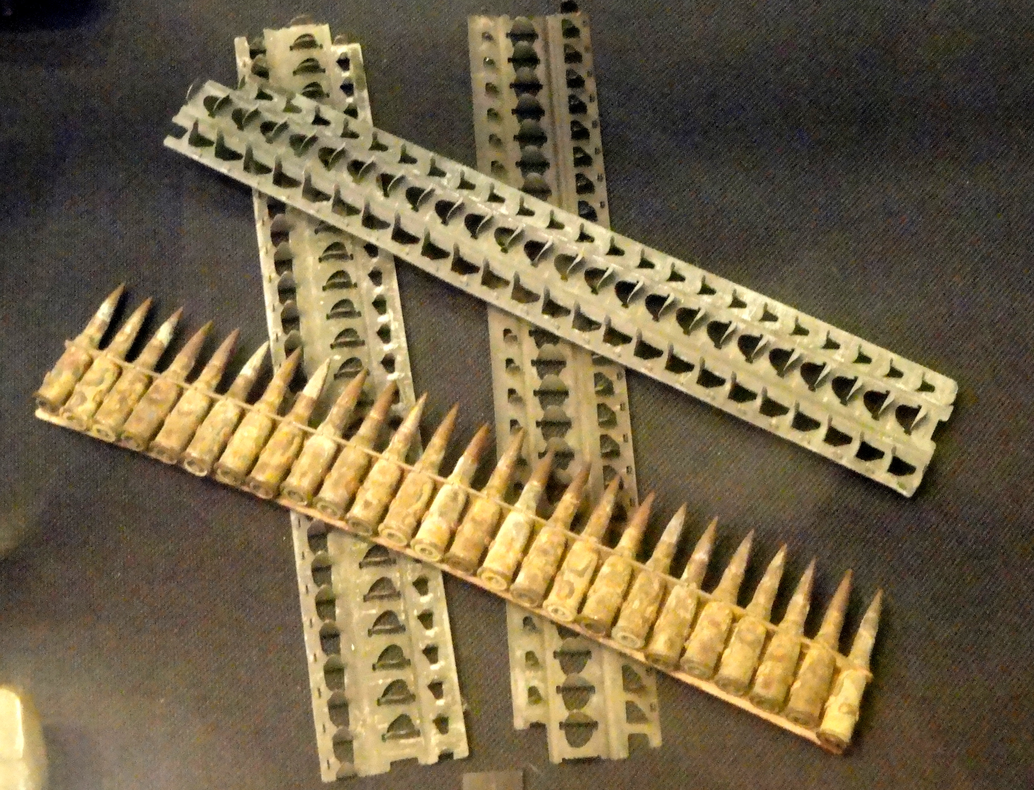 Ammunition exhibited in the National World War I Museum at the Liberty Memorial, 100 W. 26th Street, Kansas City, Missouri, USA.